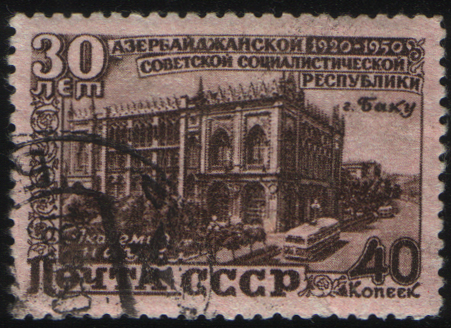 Stamp of the USSR. A building of Academy of sciences of the Azerbaijan Soviet Socialist Republic. 1950